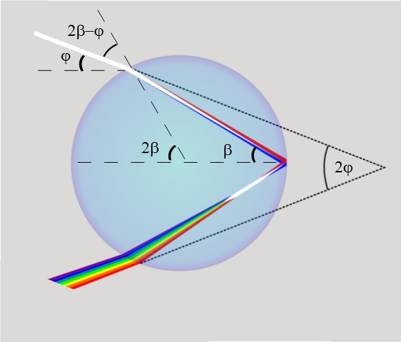 Optics of rainbow, from ray optics.